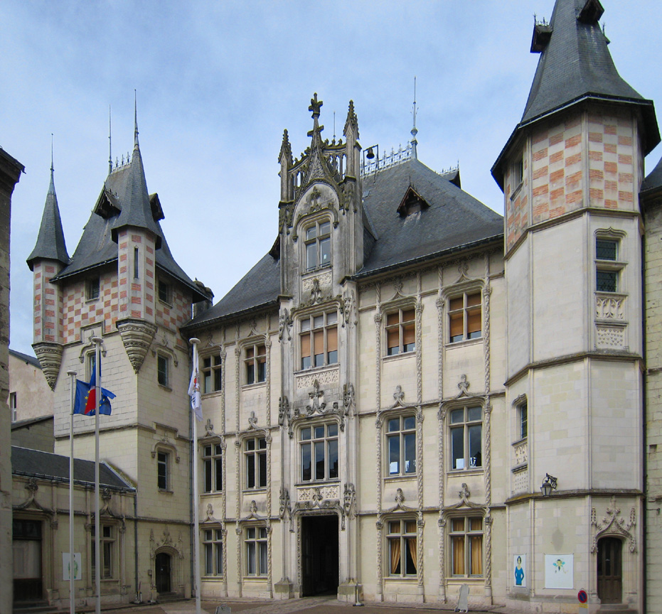 Town of Saumur in France, backyard of the townhall